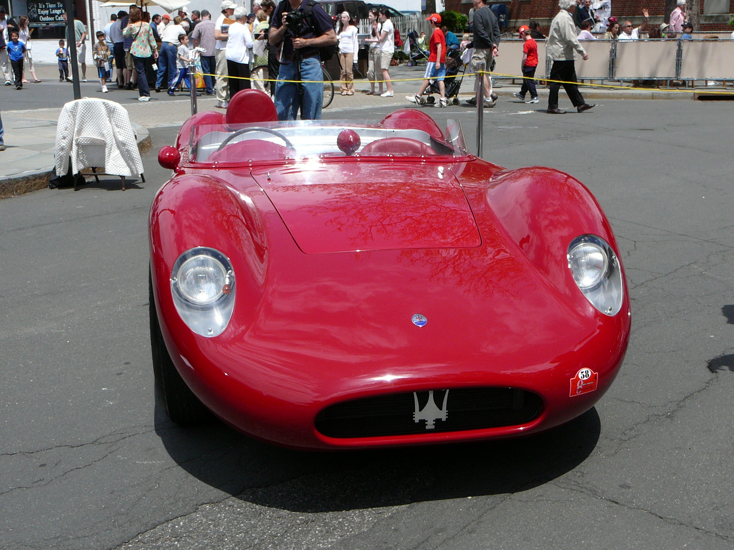 A 1957 Maserati 200SI - By Brett Weinstein (Wikipedia User: Nrbelex) taken at the Scarsdale Concours in 2006